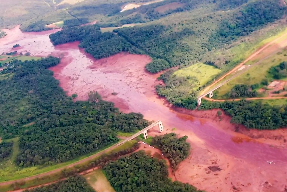 Summary of the agenda of the President of the Republic 26.01.2019 (video screenshot) 01